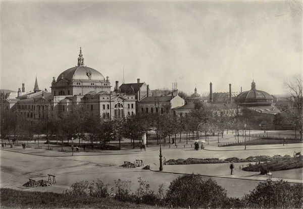 View of Nationaltheatret and the amusement park Christiania Tivoli in Oslo, 1905.